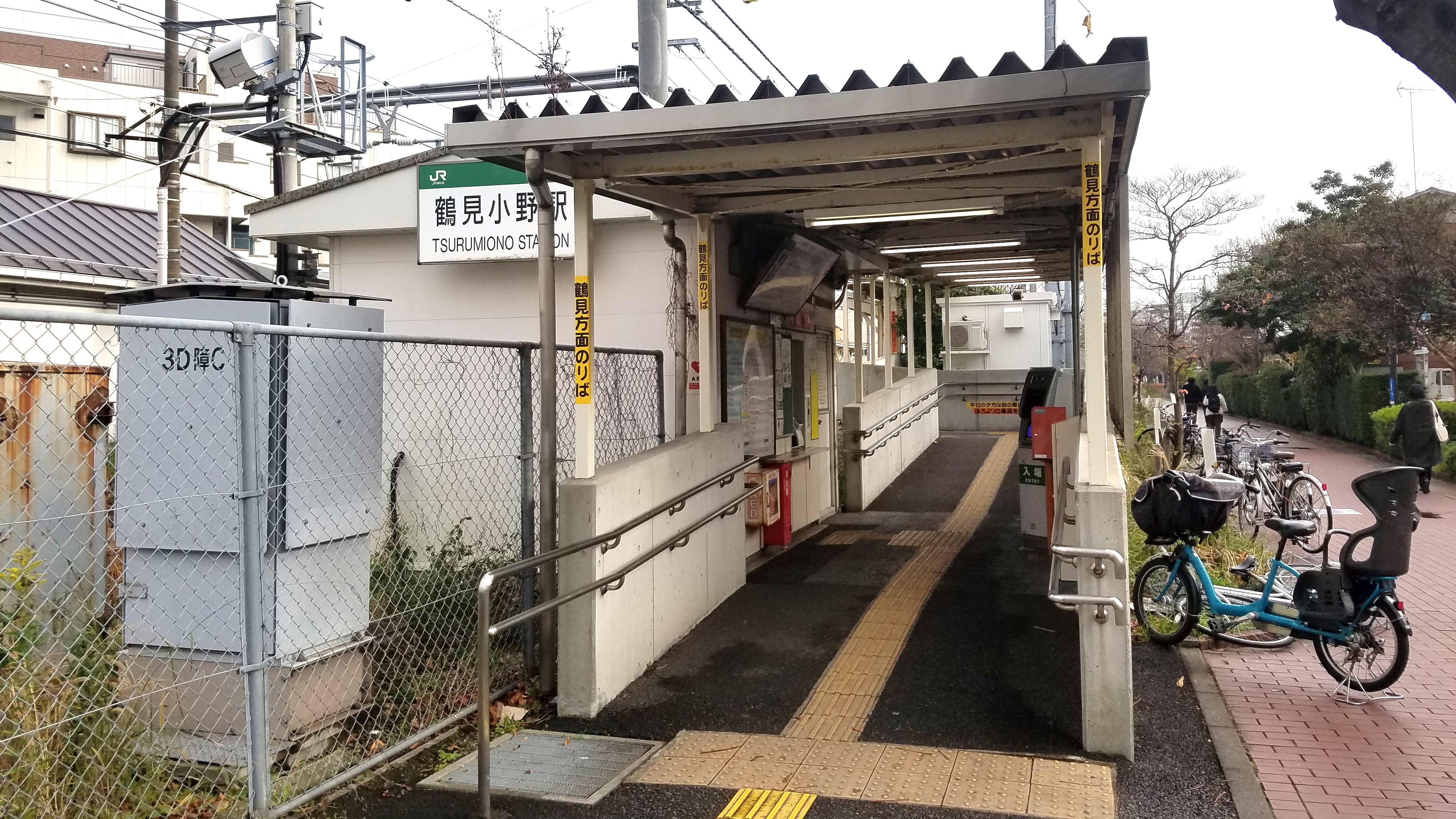 The west-side entrance to Tsurumiono Station on the Tsurumi Line in Tsurumi-ku, Yokohama, Japan